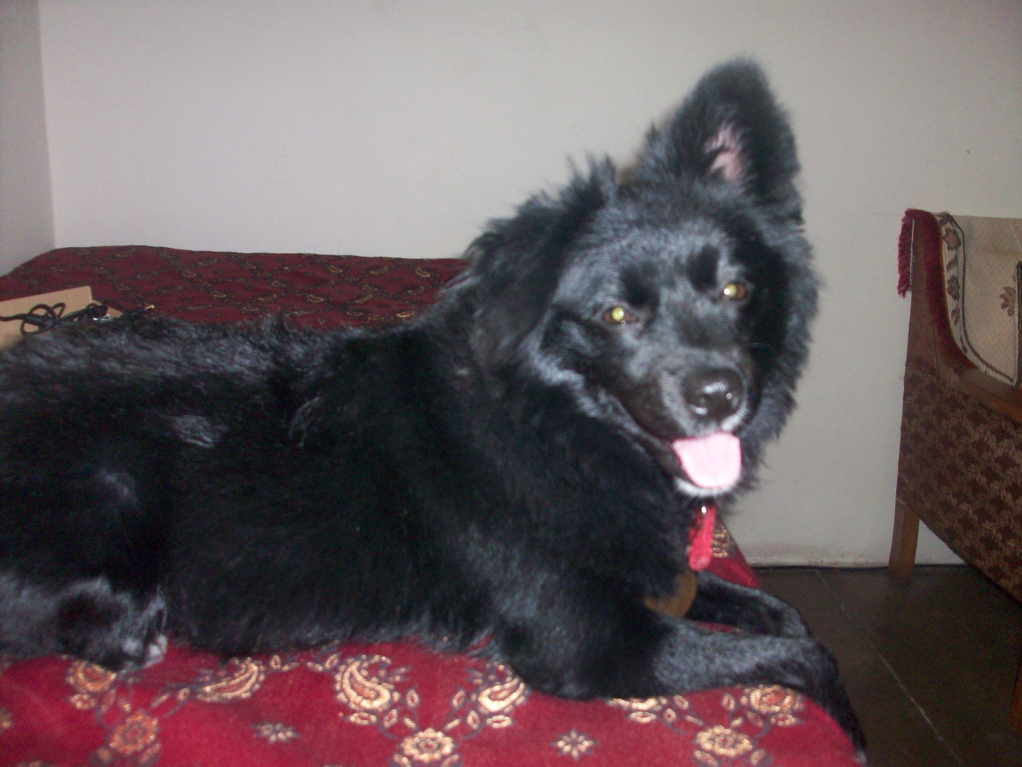 Black Indian Spitz(dog breed)